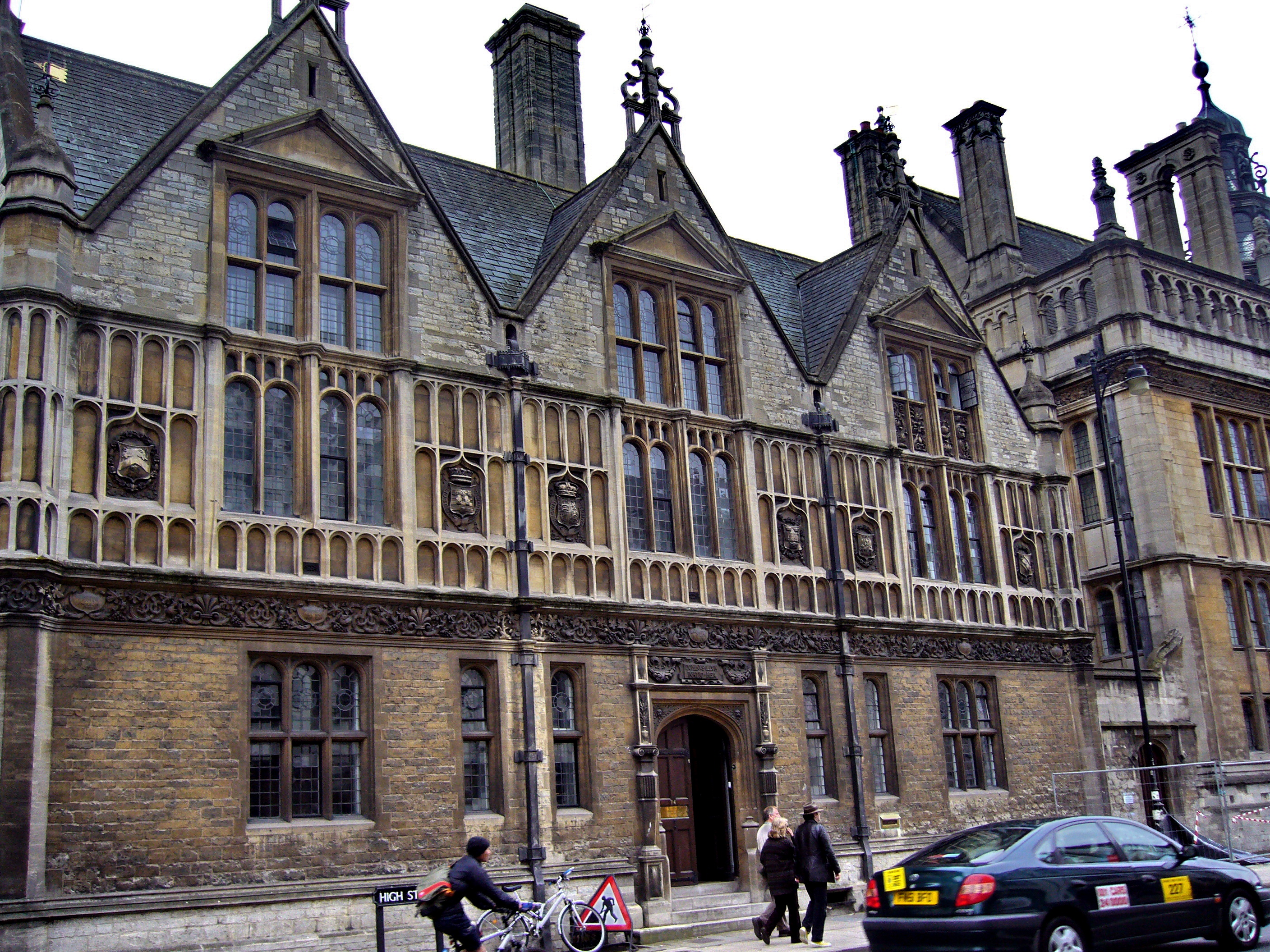 Ruskin School of Drawing and Fine Art